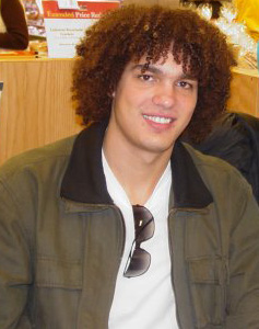 Anderson Varejão of the Cleveland Cavaliers. Says the uploader: A picture of NBA star Anderson Varejao, taken March 25, 2007 at a Giant Eagle. Taken by my friend, I asked for permission to use it and if it was in the public domain, my reponse was that it was a free image, therefore being in the public domain.